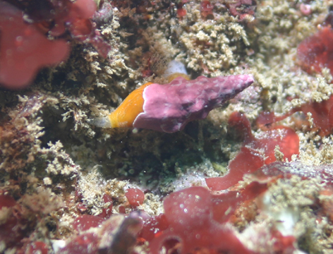 The knobbed drill Pseudomelatoma torosa is in the snail family Turridae, which can be identified by a notch a the upper portion of the outer lip